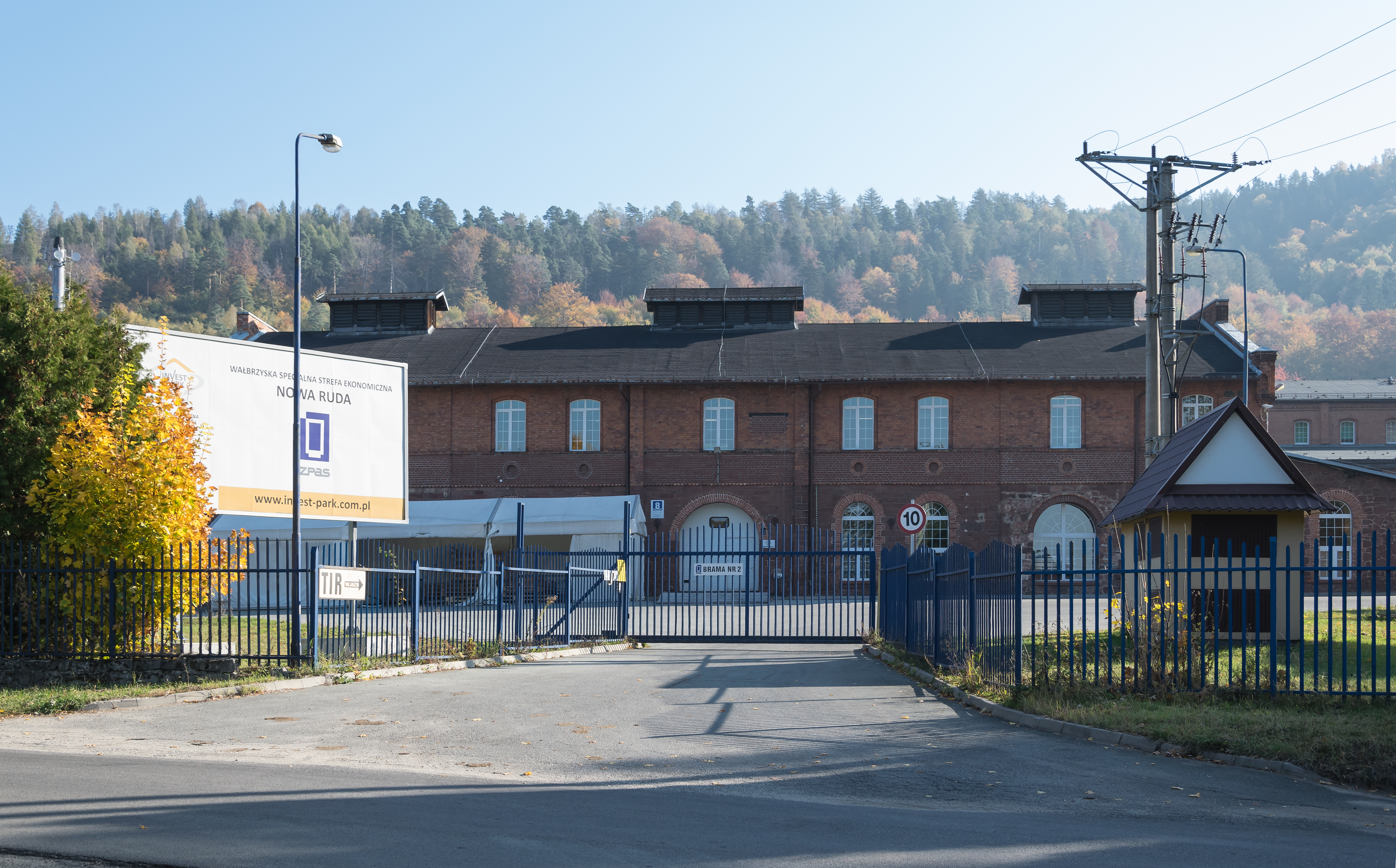 ZPAS S.A. in Przygórze, former Barbara mine Wikidata has entry Q30049431 with data related to this item.